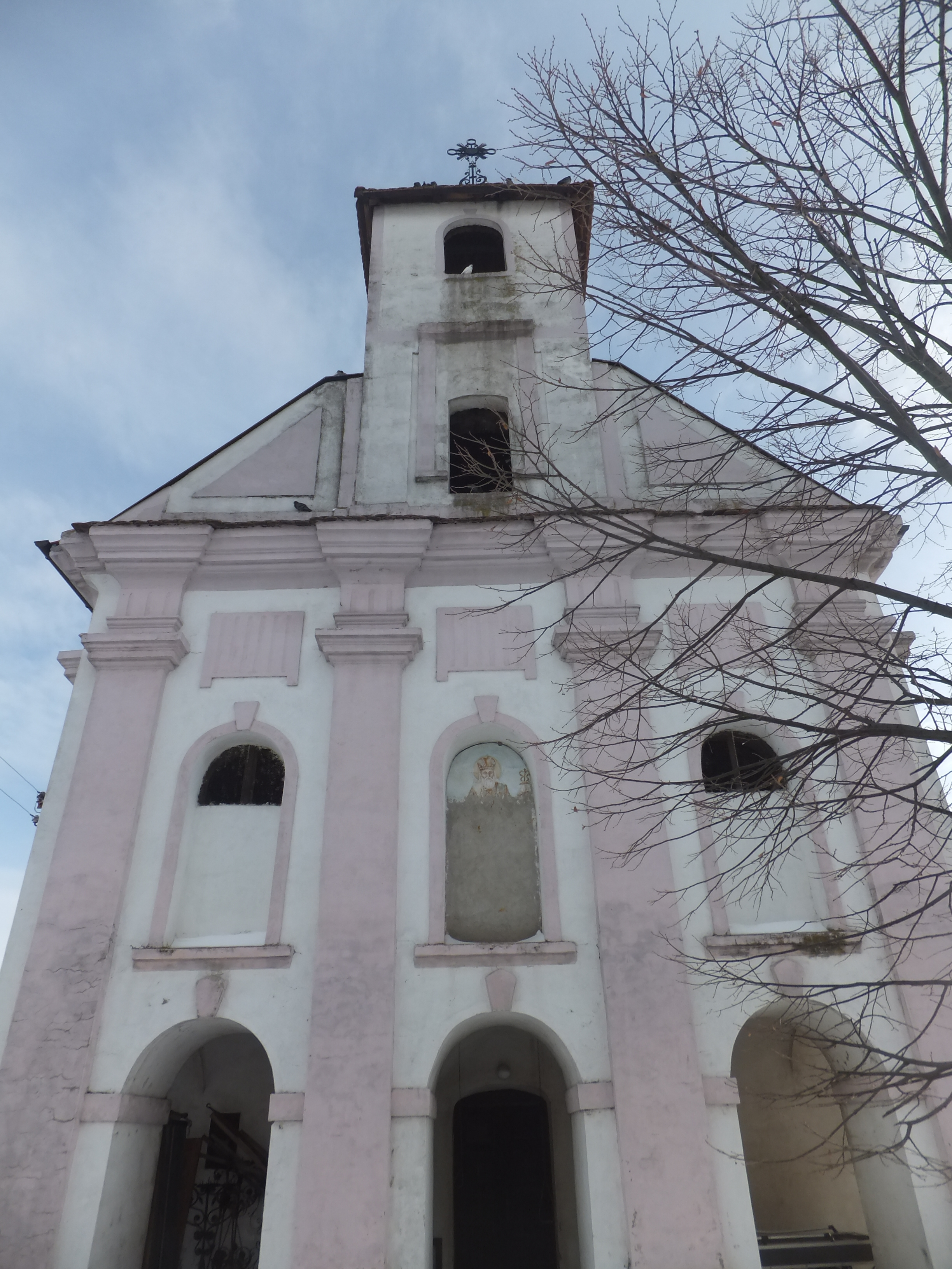 Church of Saint Nicholas in Prhovo